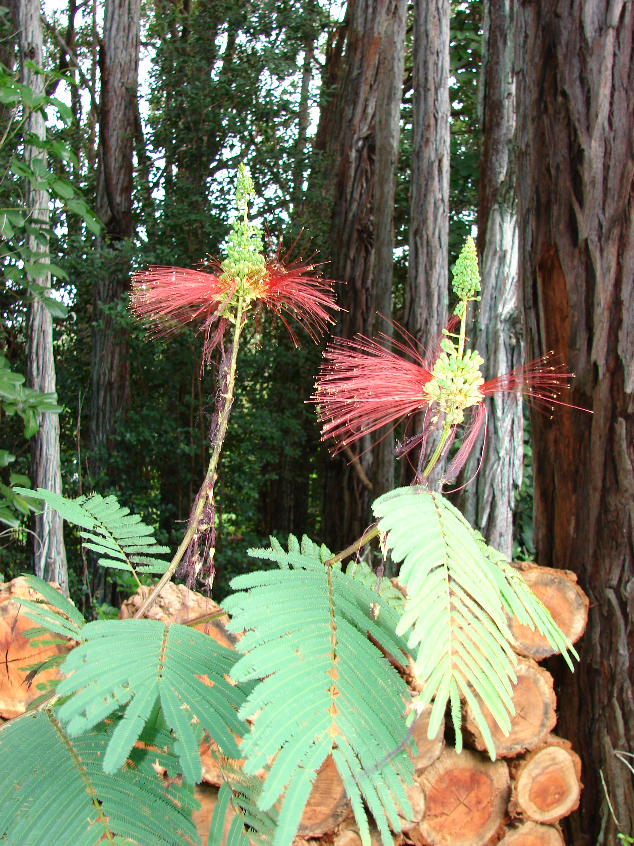 Calliandra houstoniana var. calothyrsus (flowers and leaves). Location: Maui, Ulumalu Haiku